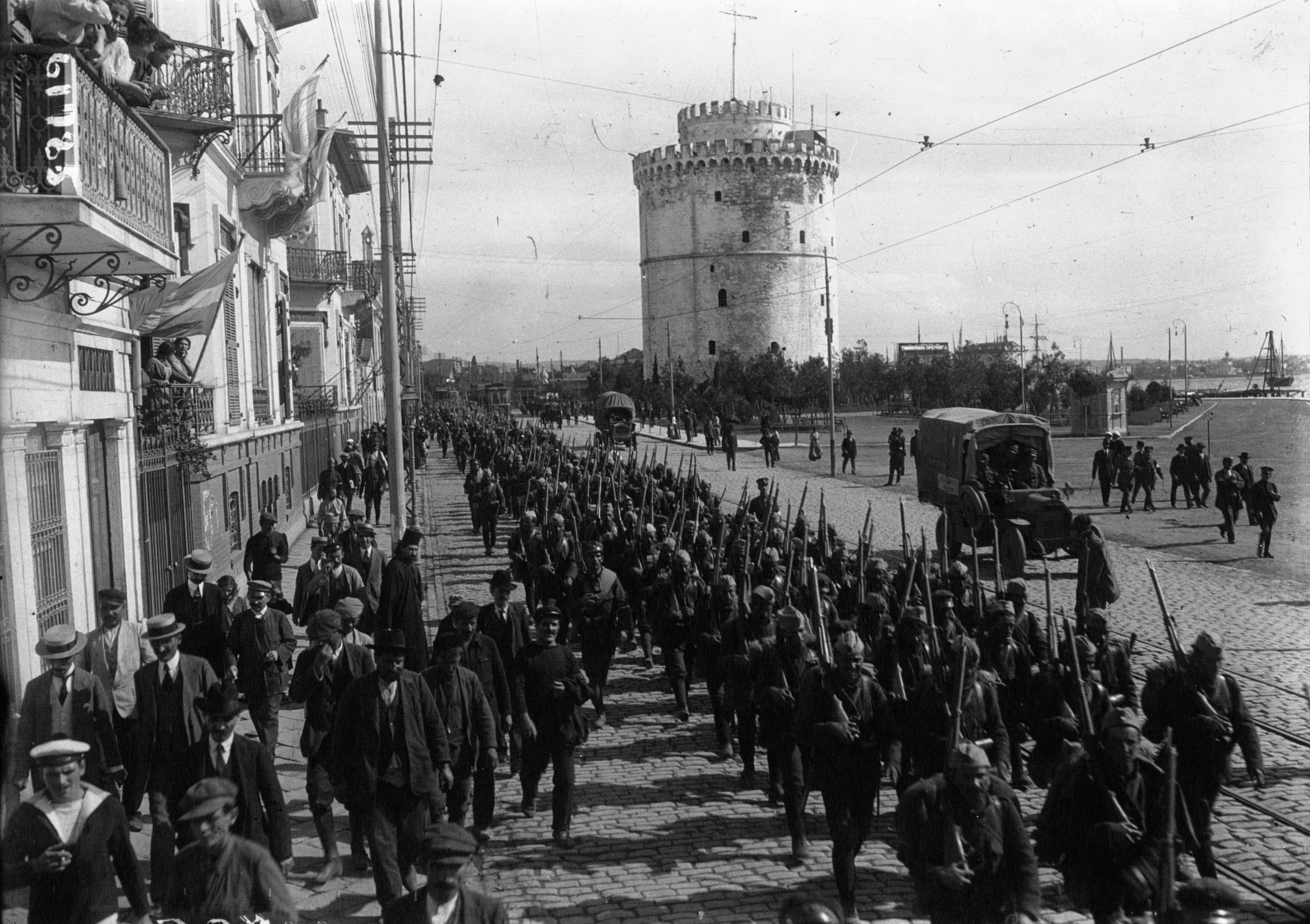 The 1st Battalion of the Army of National Defence marches before the White Tower on its way to the front, Thessaloniki 1916